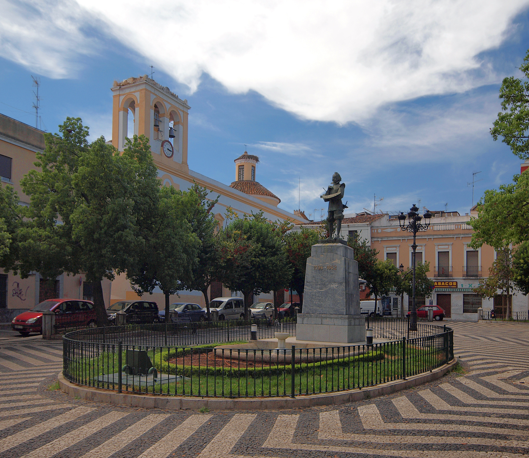 Plaza Cervantes or Plaza San Andrés, with a statue of Francisco de Zurbarán